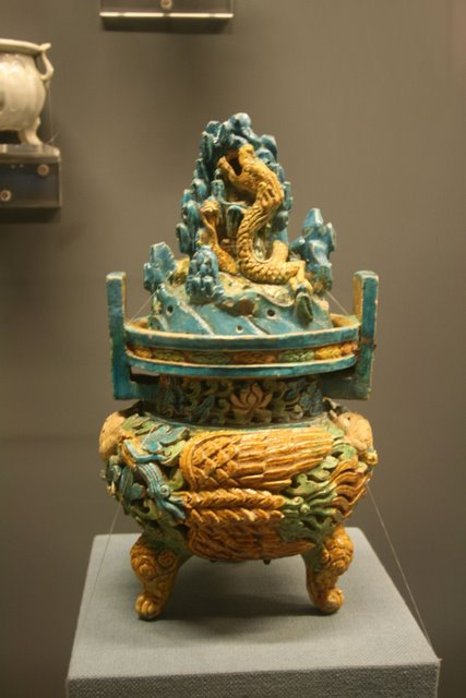 A Chinese Yuan Dynasty glazed pottery burner, Capital Museum, Beijing.